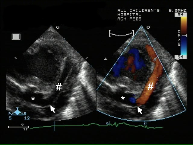 Two dimensional (left) and color Doppler (right) on day one (atypical short axis view of LV). The large coronary artery fistula drains (arrow) into the left ventricular apex (*). The LAD (#) was dilated up to 4.4 mm in diameter along its course.